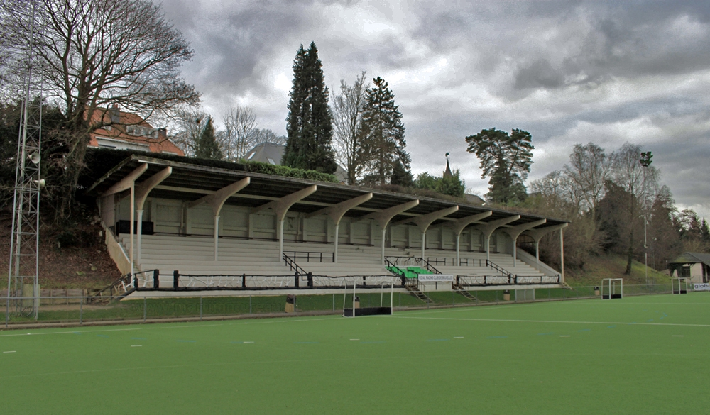 The main stand of the defunct stadium Stade du Vivier d'Oie (NL: Stadion de Ganzevijver) in Ukkel, Brussels. Previous home of Racing Club de Bruxelles.